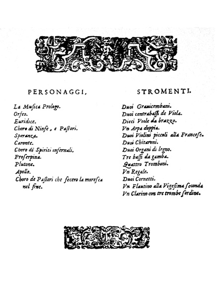 Lists of character and instruments for Claudio Monteverdi's 1607 opera L'Orfeo; published in Venice in 1609 by Ricciardo Amadino